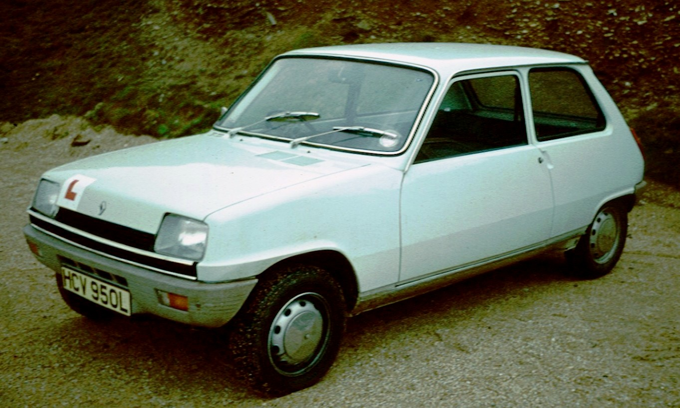 Renault 5 car in Cornwall 1972